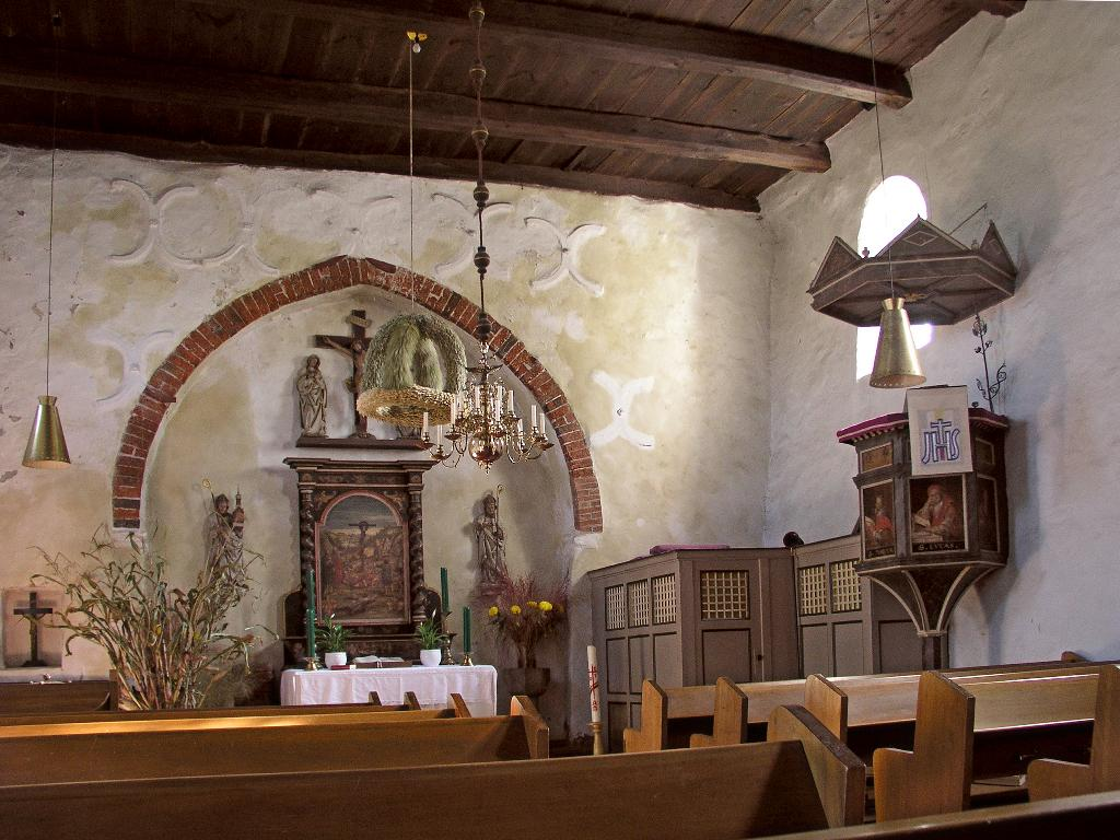 Wrist, Schleswig-Holstein, Germany: church of Stellau, interior, photo 2007